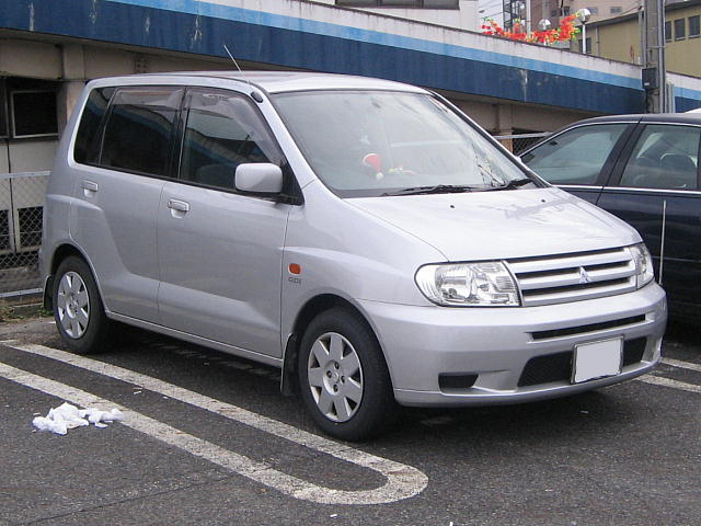 Mitsubishi "Mirage Dingo" 2001/2-2002/8